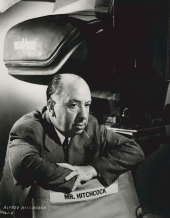 Publicity photo of Alfred Hitchcock, 1960.